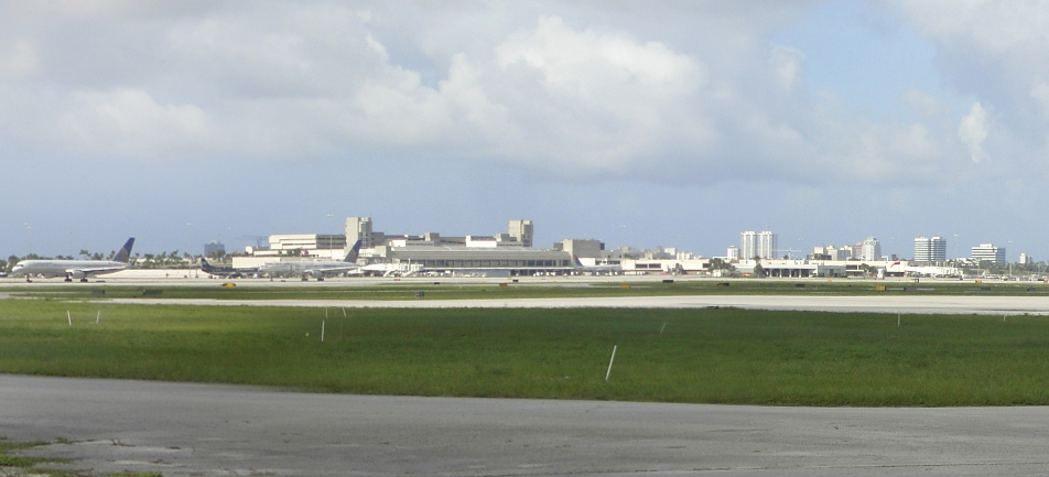 A cropping of my panoramic, a closeup of the PBIA terminal. I took this picture.